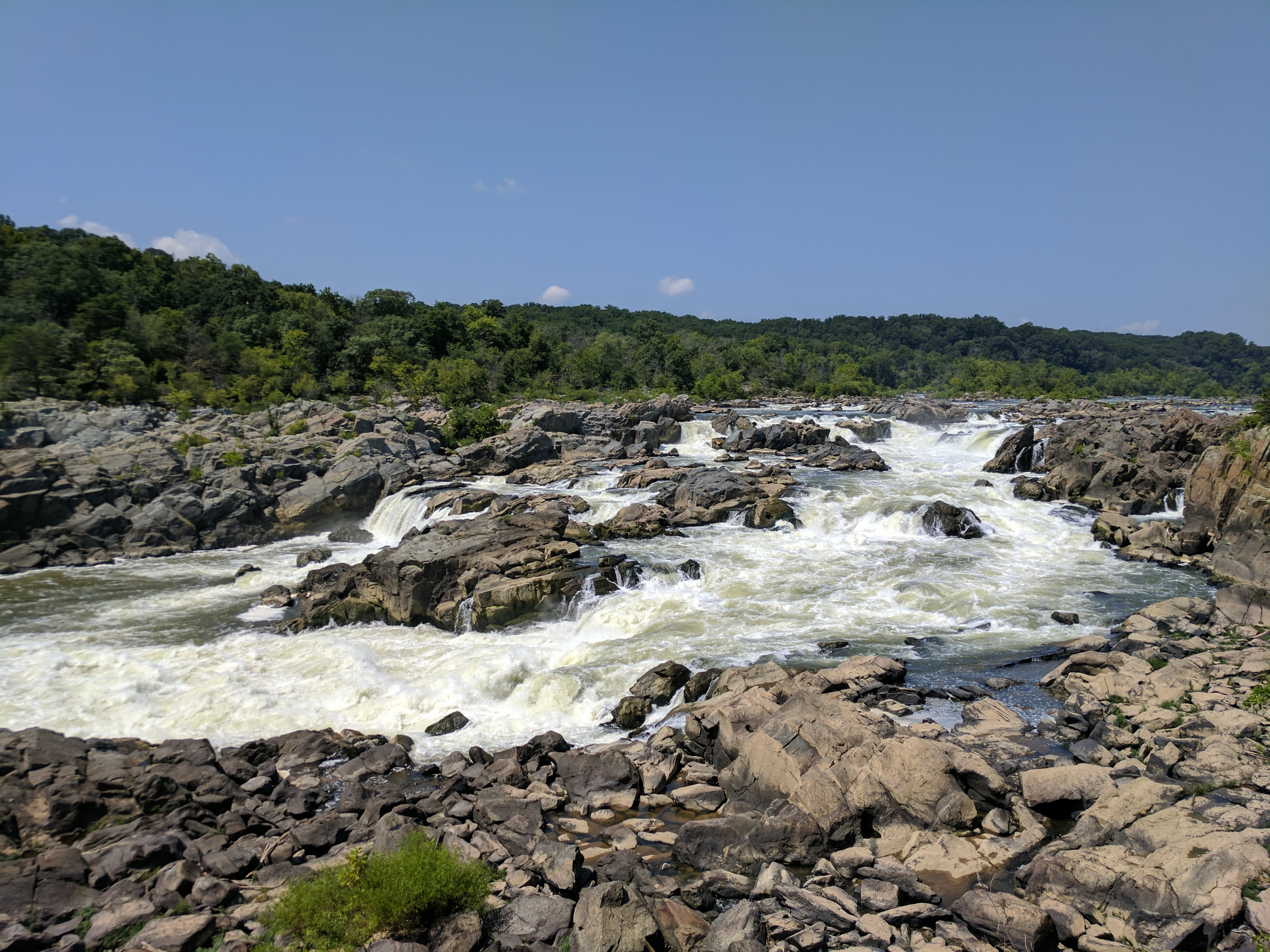 Great Falls of the Potomac River, Montgomery County, Maryland.